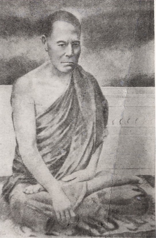 The photograph shows a photo of Tibbetibaba, a famous saint of India.His life was combination of the path followed by Lord Buddha and the Advaita Vedanta path of Hinduism. The photograph was shot in India more than 78 years ago. The subject of the photo is sitting in a yogic posture.The person depicted in the photo had entered in Mahasamadhi on 18th November,1930(corresponding to month 2nd Agrahyana of year 1337 of Bengali calender year). Information about the saint can be obtained from the following books(the books are published in Bengali language in India): 1) Bharater Sadhak O Sadhika.This book is written by Sudhanshu Ranjan Ghosh.It is published in India by Tuli Kalam Publication. Address: 1, College Row, Kolkata – 700 009. India 2) Bharater Sadhak – Sadhika (Volume 1).This book is written by Subodh Chakravorty.It is published in India by Kamini Publication. Address: 115, Akhil Mistry Lane, Kolkata – 700 009 India